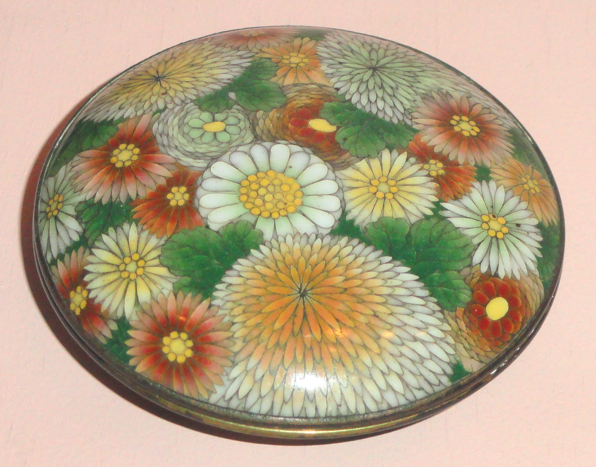 Box by Kawade Shibatarō (1856-c.1921). Exhibit in the George Walter Vincent Smith Art Museum, 21 Edwards Street, Springfield, Massachusetts, USA. This item is old enough so that it is in the public domain. The museum permitted photography without restriction.